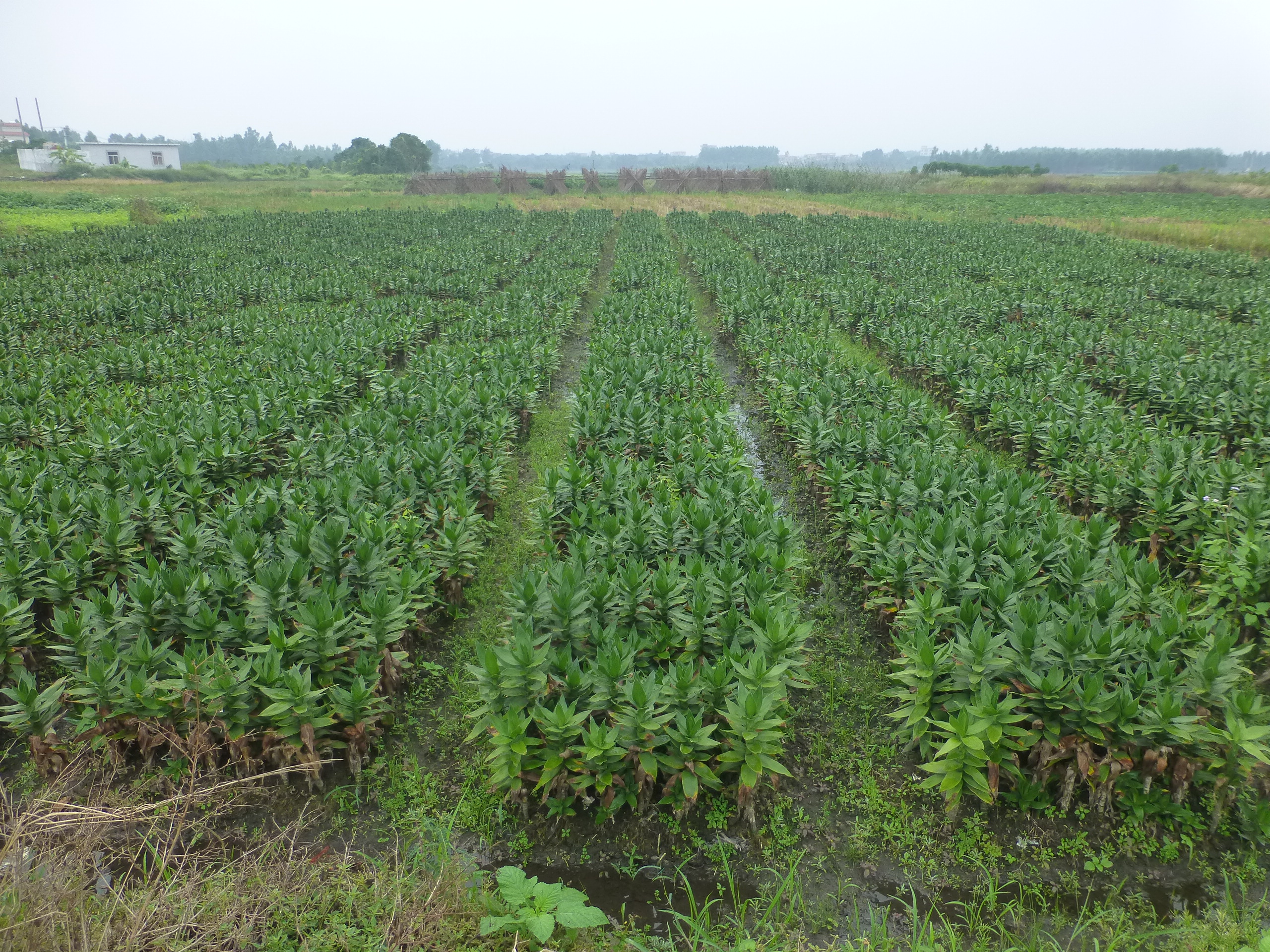 A field of "lucky bamboo" (Dracaena sanderiana) in Donghai Island, Guangdong.